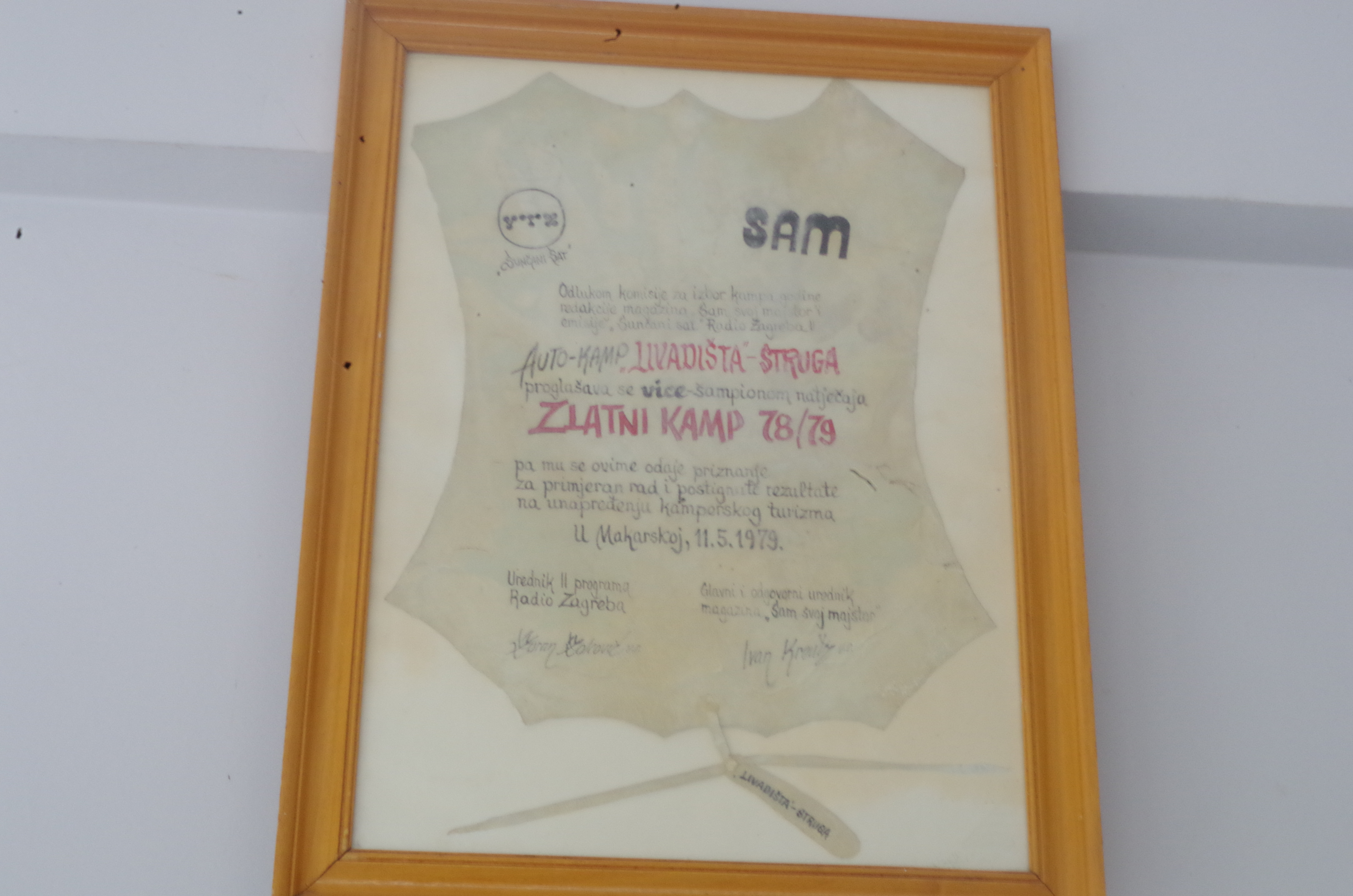 Golden camp award 1978/79 for the Autocamp Livadishte